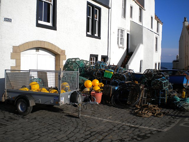 Creels, Gyles Creels stacked beside Pittemweem Harbour